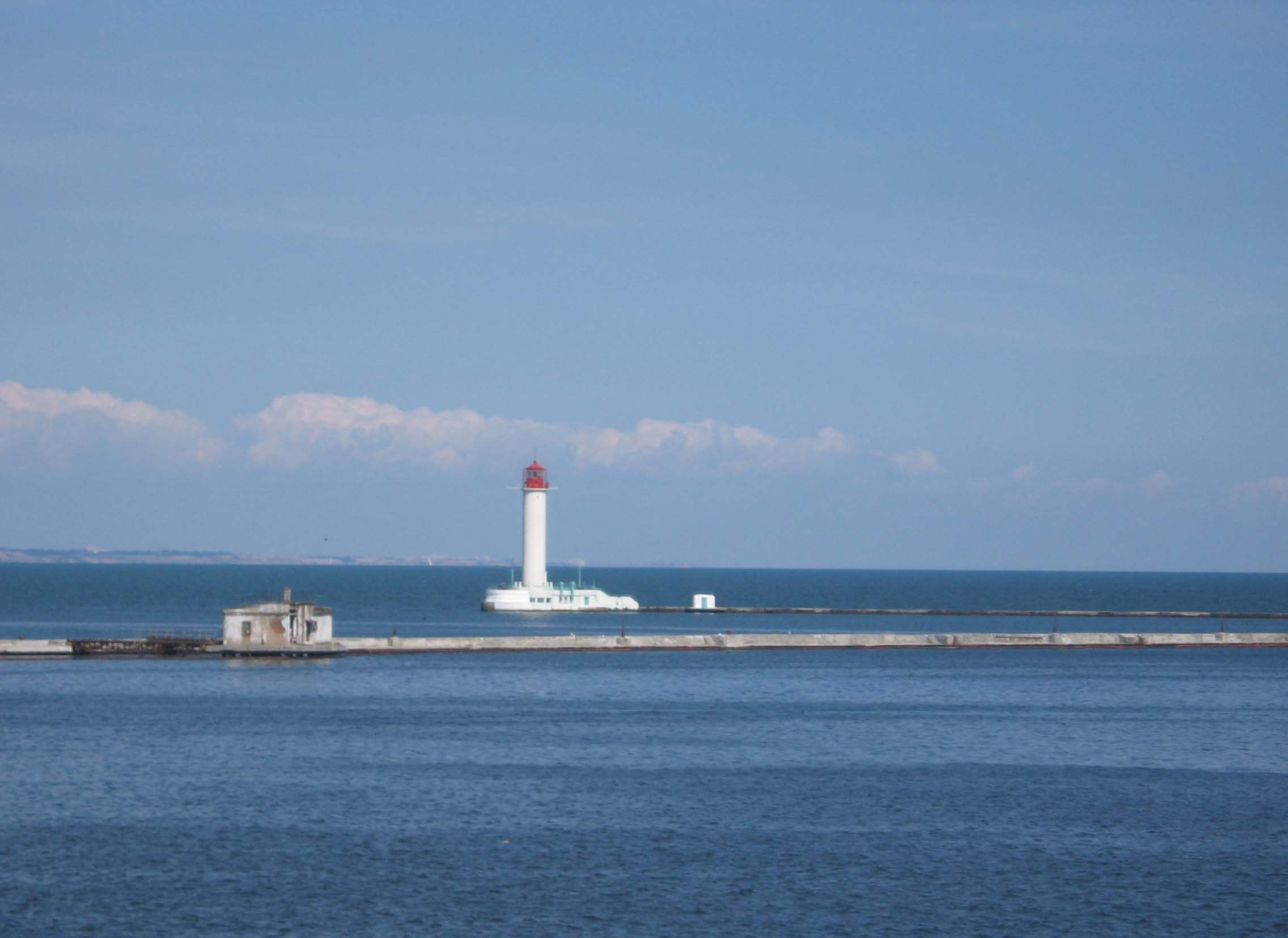 New Vorontsov lighthouse in Odessa, Ukraine